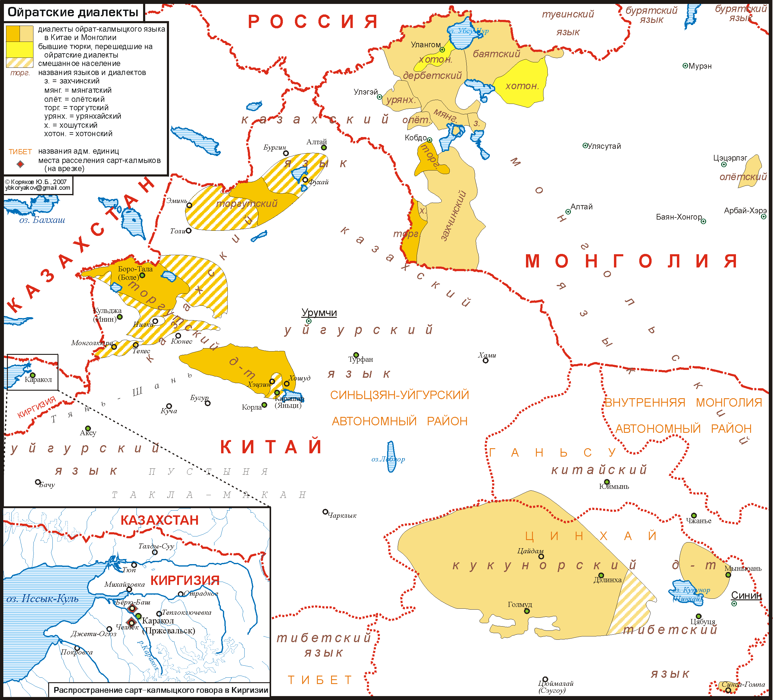 Distribution of Oirat dialects in China and Mongolia.